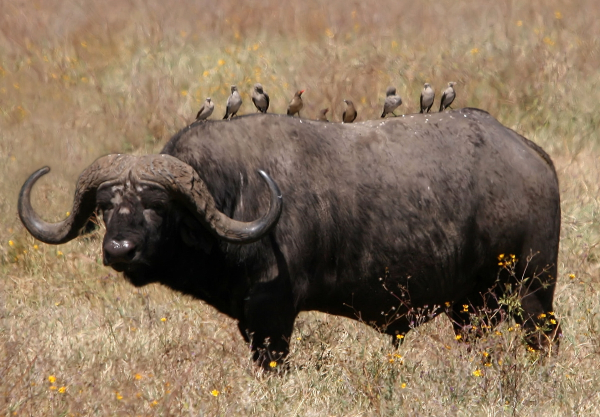 African buffalo (Syncerus caffer), picture taken at Ngorongoro Conservation Area, Tanzania